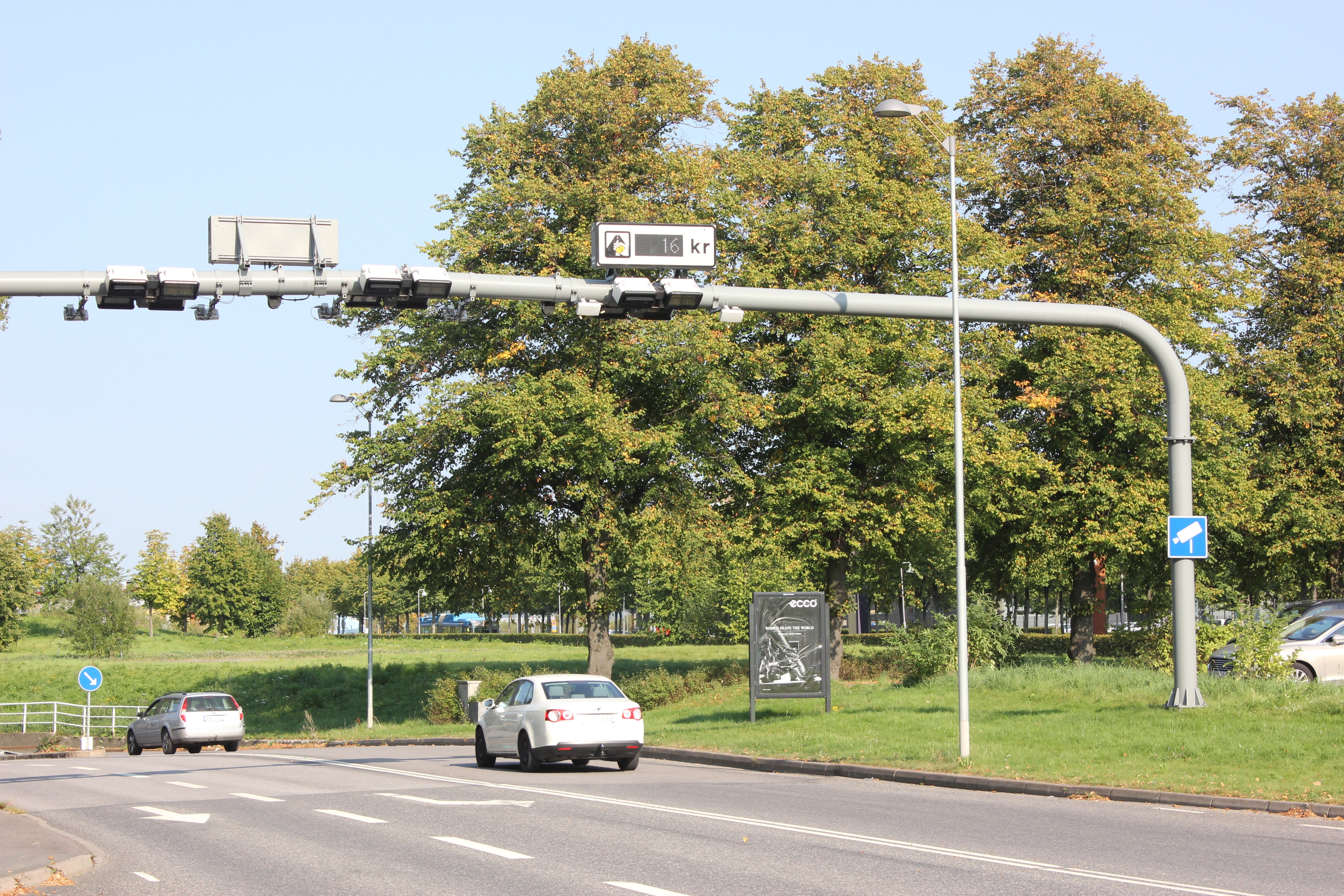 Gothenburg - toll station in Karlavagnsgatan